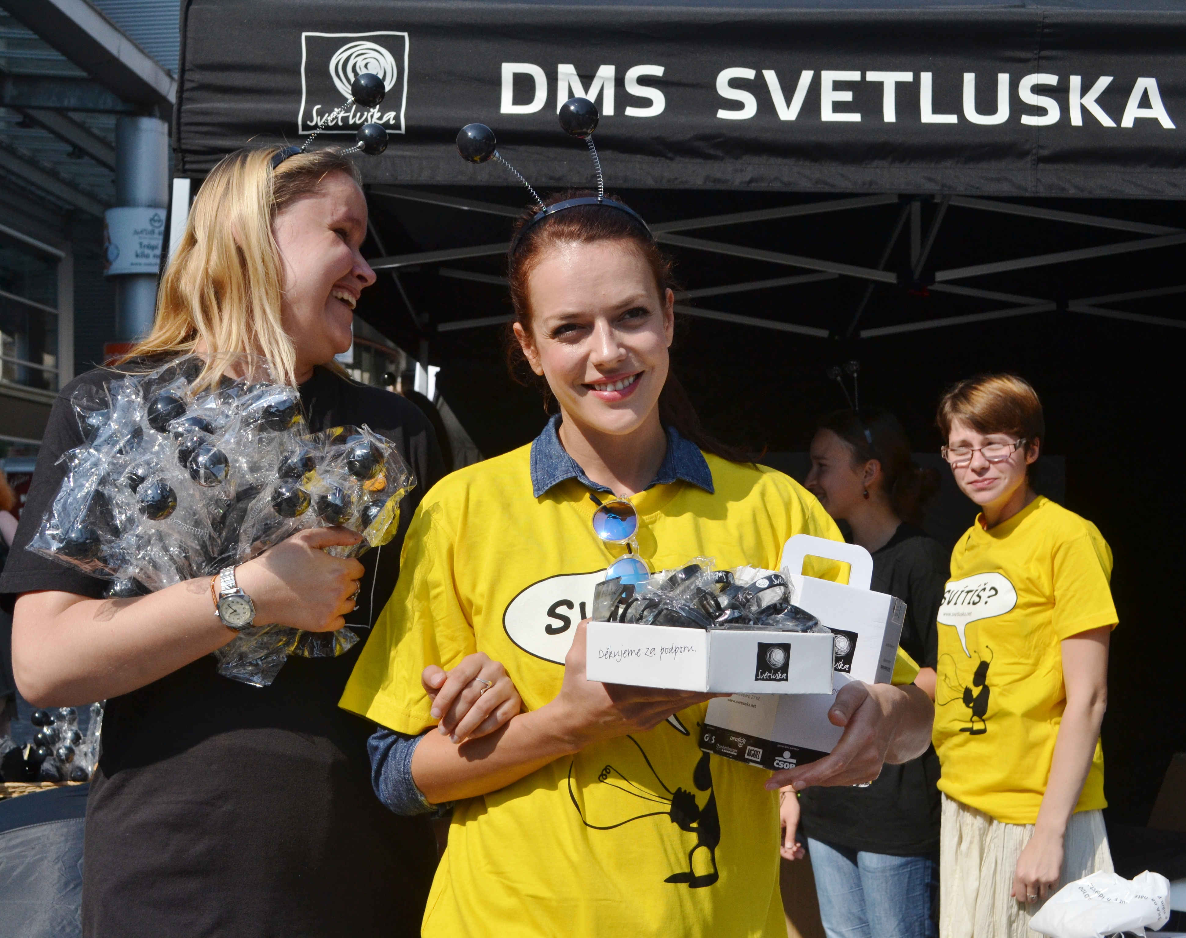 Andrea Kerestešová, Slovak actress (in the middle)